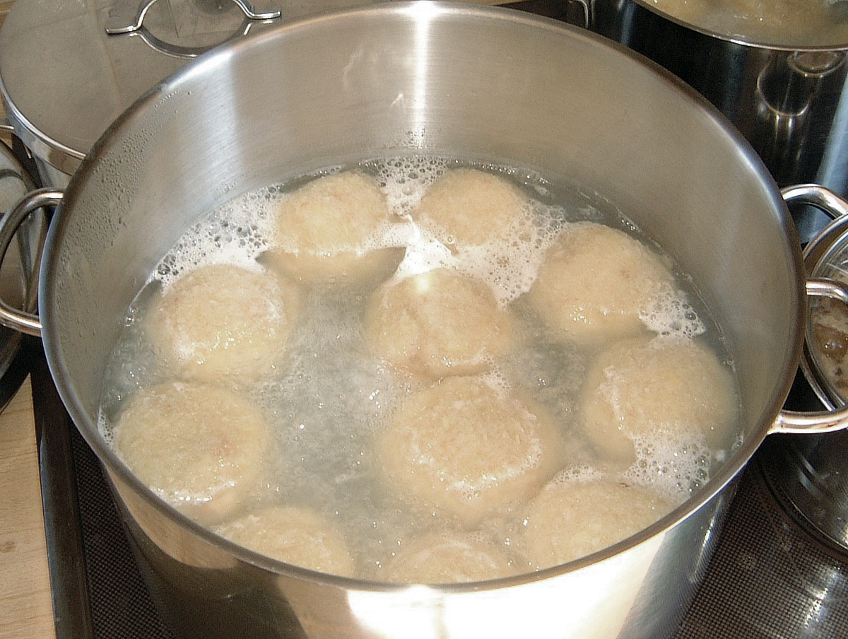 Genuine Bavarian Knödel (potato dumplings) during cooking